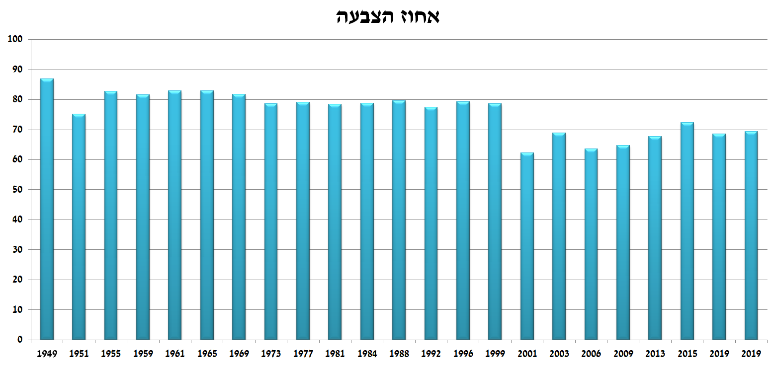 Percentage of voting in Israel by years